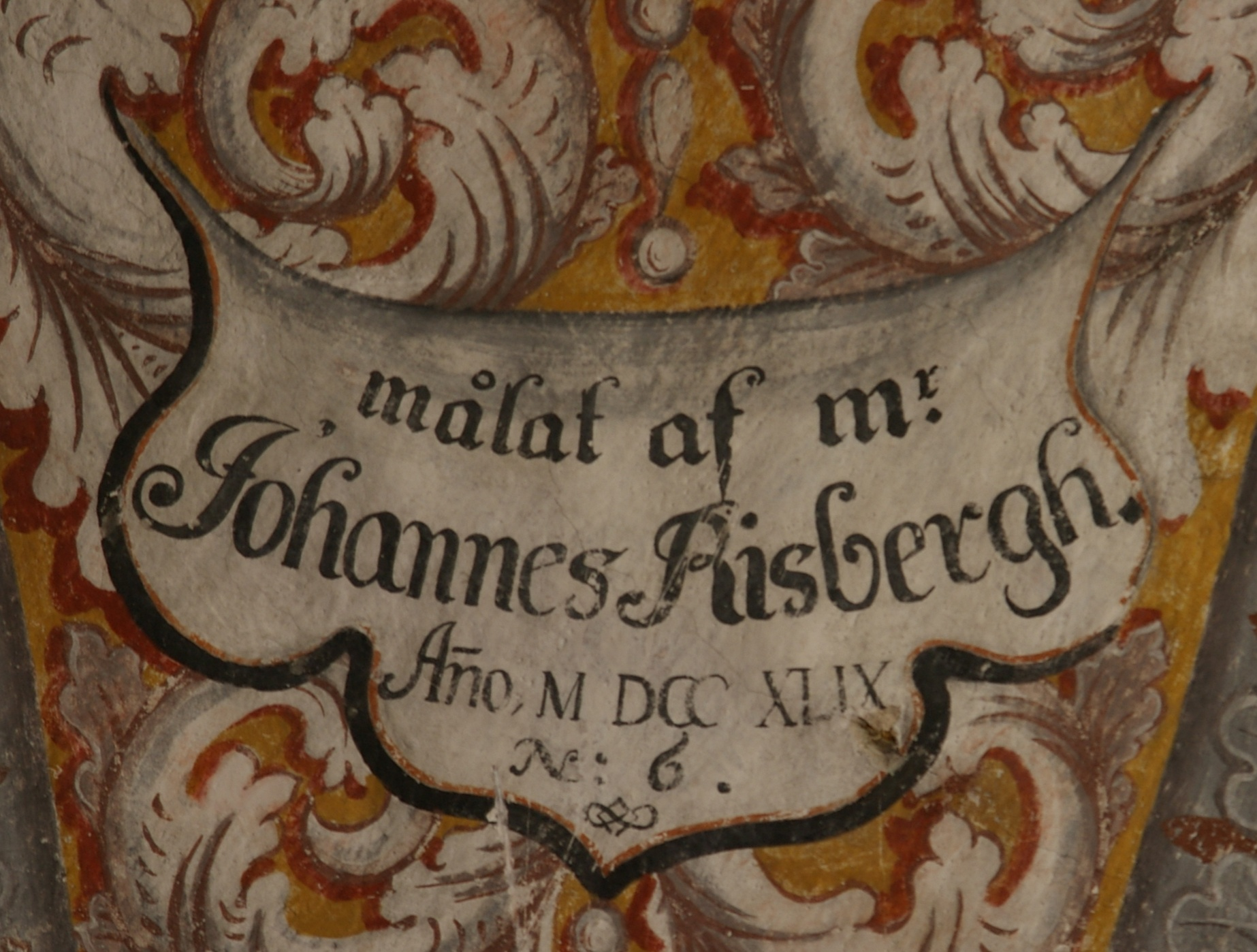 Kungslena Church, Tidaholm Municipality, Sweden.